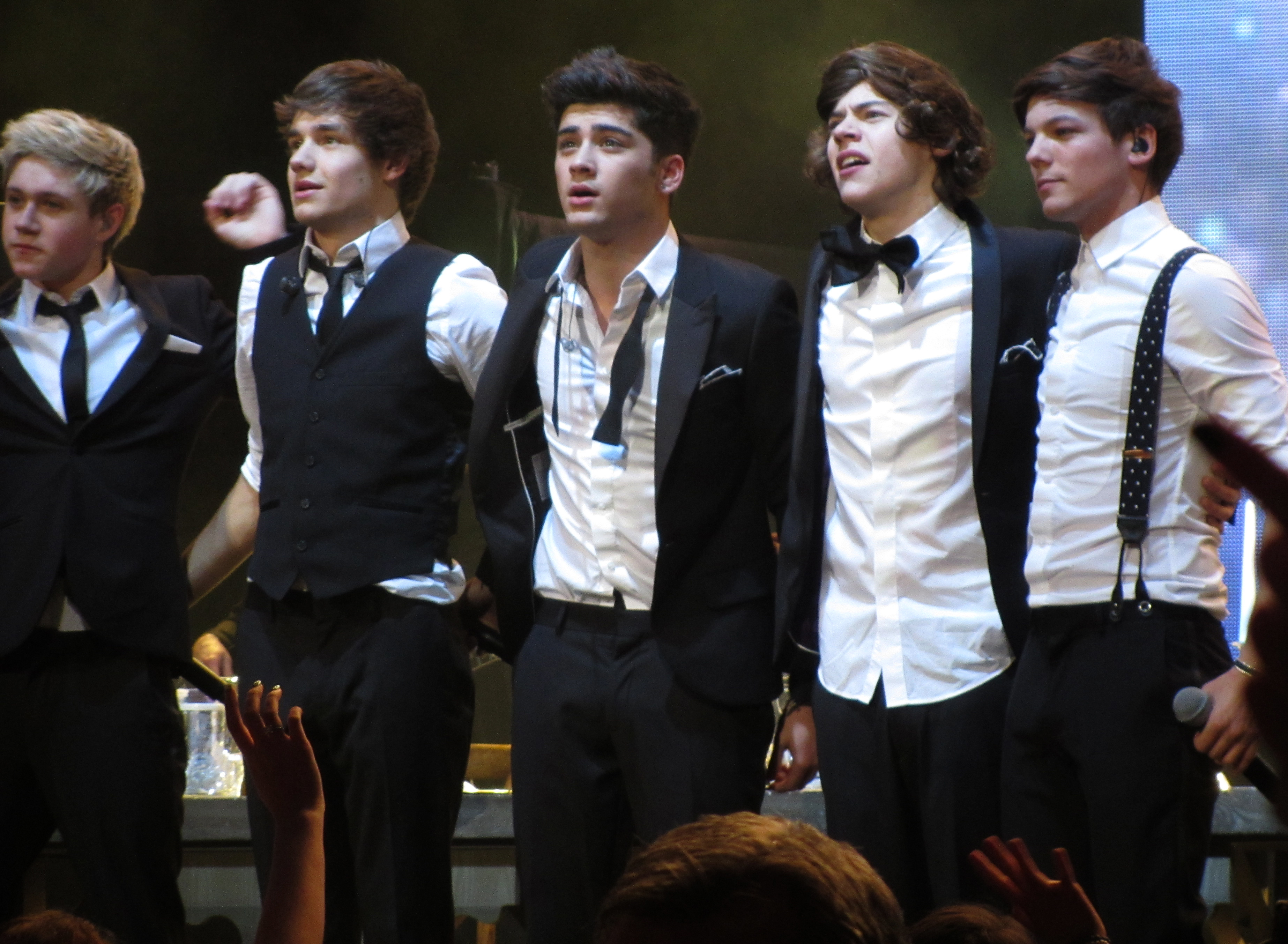 One Direction, Clyde Auditorium, Glasgow, Saturday 14 January 2012. From left to right: Niall Horan, Liam Payne, Zayn Malik, Harry Styles, Louis Tomlinson. One Direcction take a bow after the final song of the setlist "I Want".